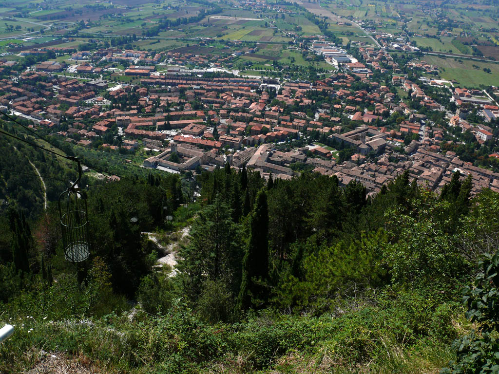 Gubbio: view from Monte Ingino